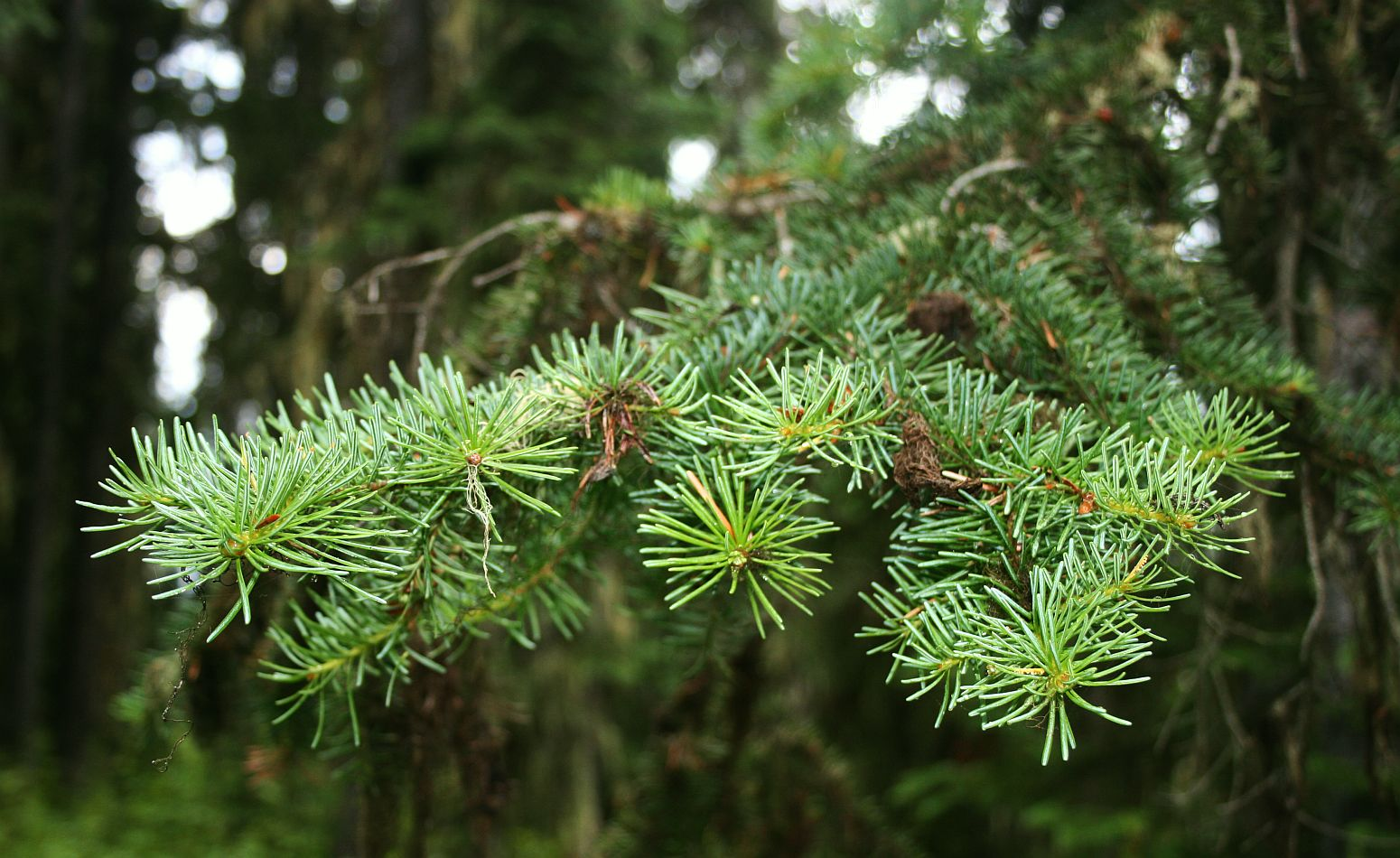 Abies lasiocarpa subsp. bifolia, Kieferngewächse (Pinaceae) - Kanada/Canada: British Columbia, Shuswap Highland, ca. 8 km ESE Sicamous, ca. 1600 m